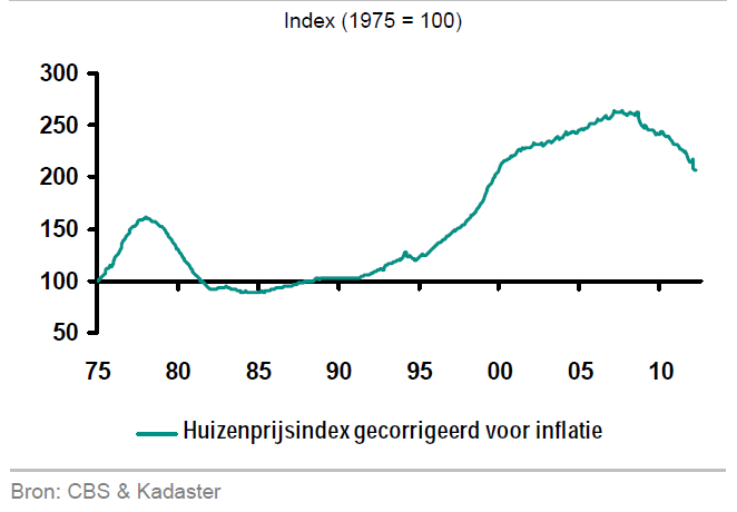 Netherlands house price index since 1995.